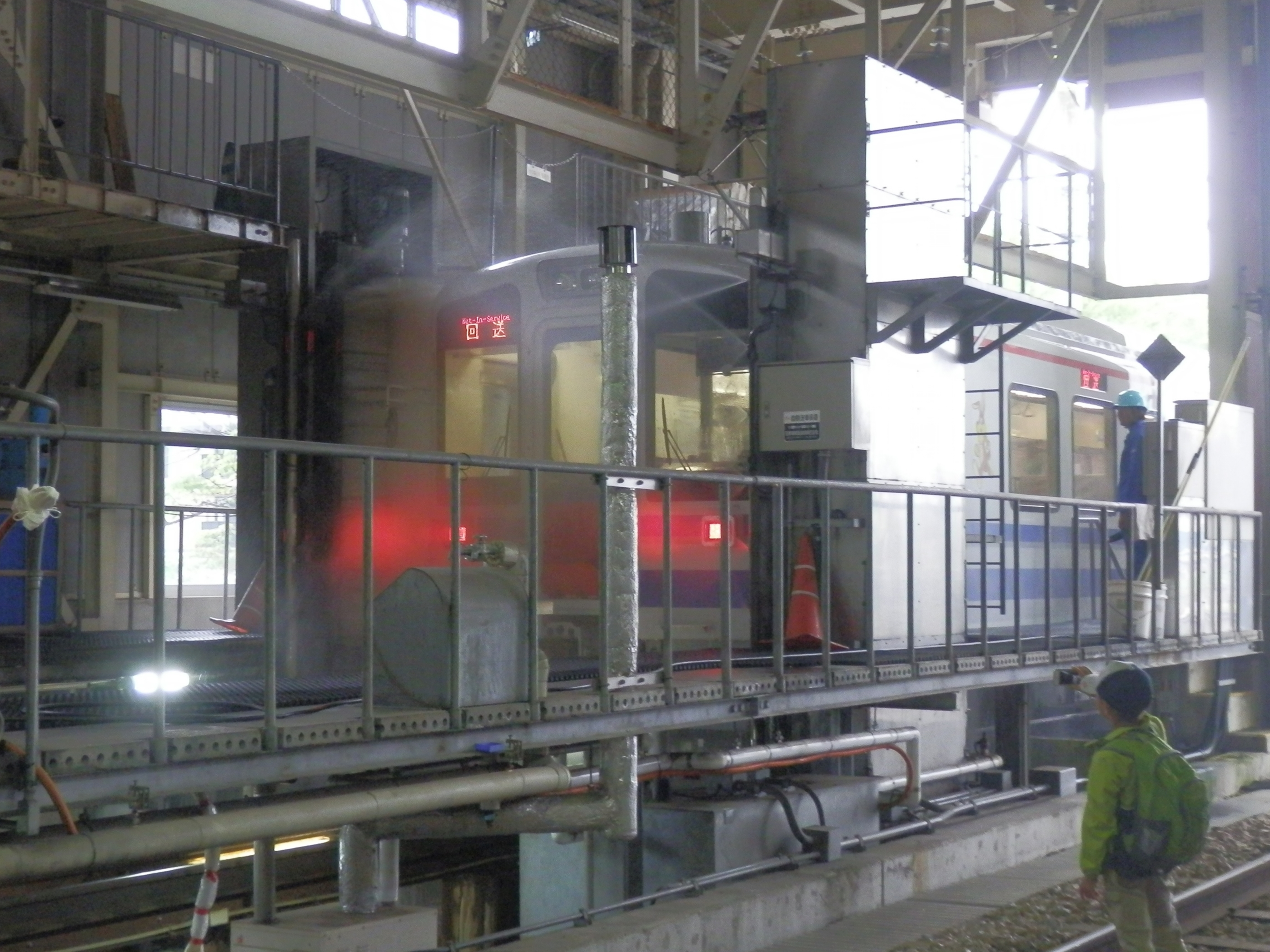 Cleaning equipment for railroad car of Hokuetsu Express Company, Muikamachi depot.